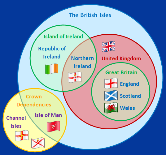 Venn diagram displaying the relationships between the subsidiary nations of the UK and the meaning of the term "British Isles" and how the "Crown dependencies" fit in.